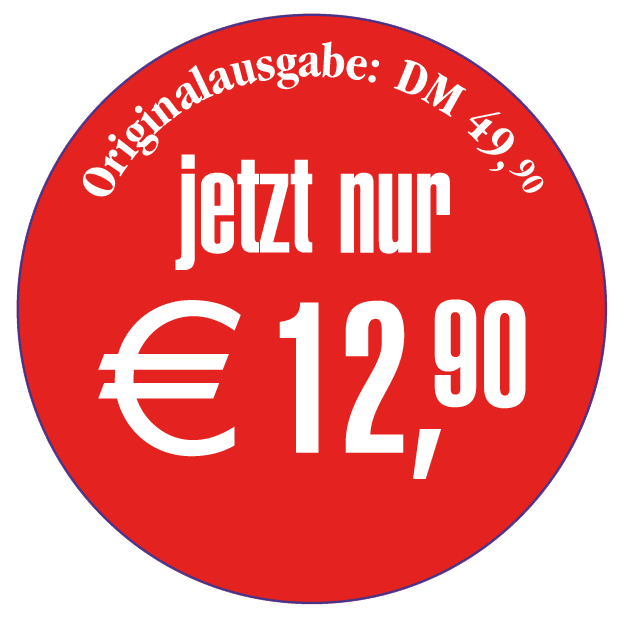 Book price tags for cheap special editions as used in Germany